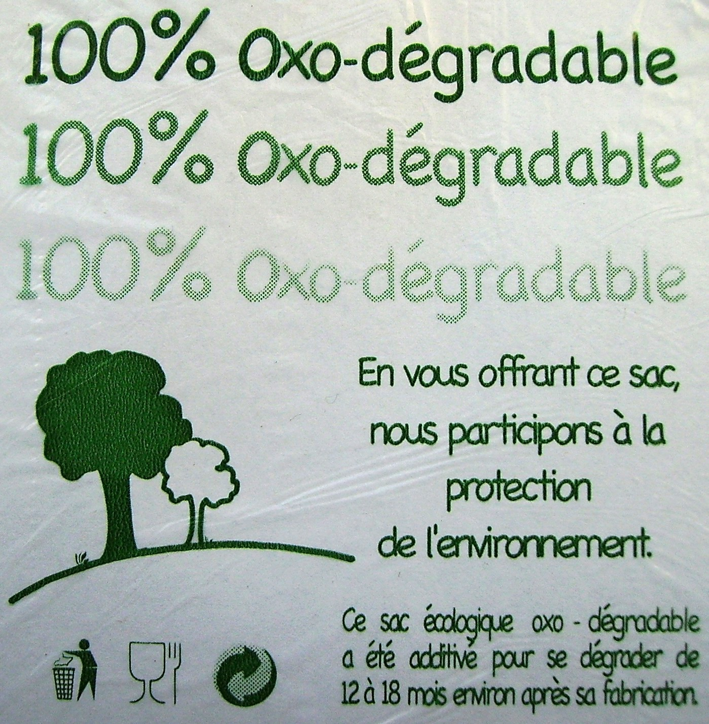 Photo of a part of a plastic shopping bag given in a convenience store. Information printed: "100% Oxo-degradable".